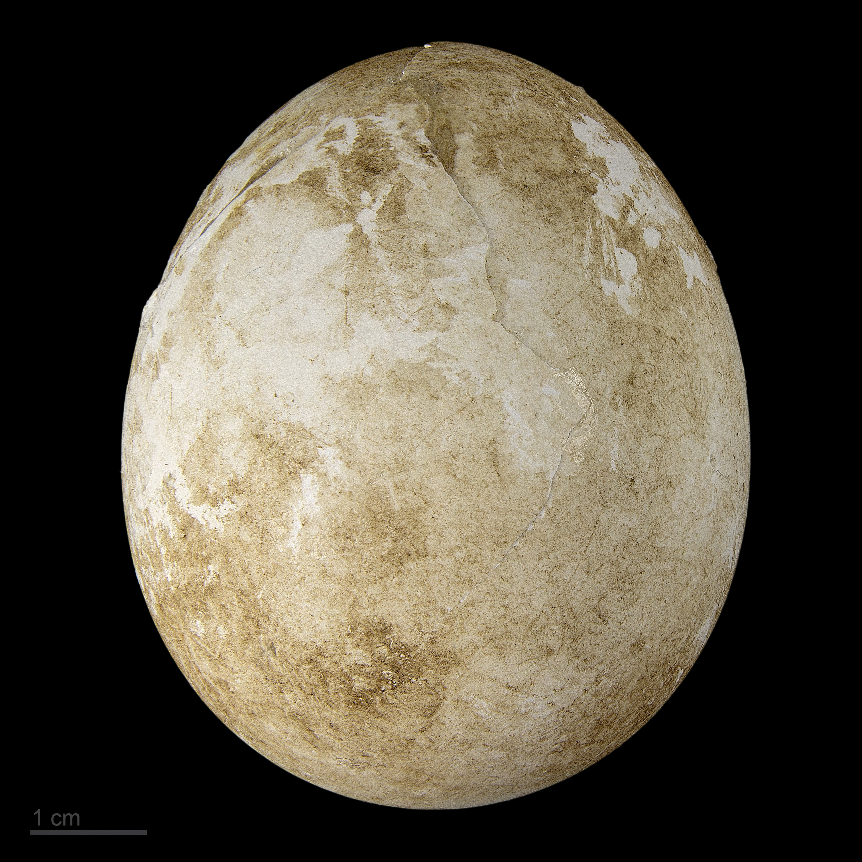 Eggs of Kerguelen petrel collection of Jacques Perrin de Brichambaut.